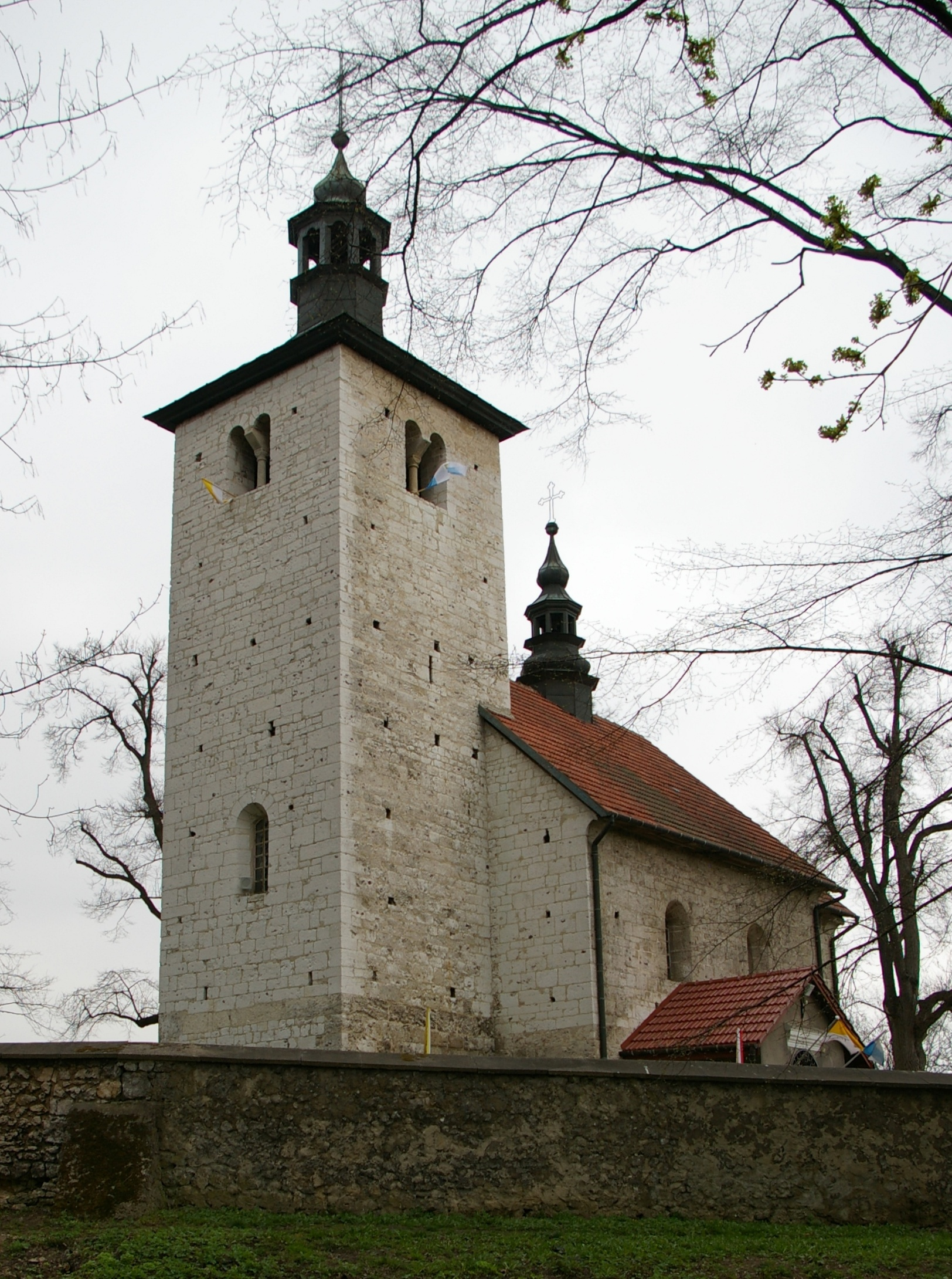 Church of St. Nicholas in Wysocice, Poland